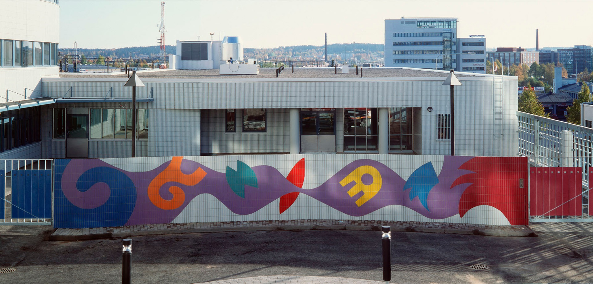 The Wall of Joy (1993, clinker tiles) by Johanna Rytkölä in the square of the police headquarters in Tampere, Finland.